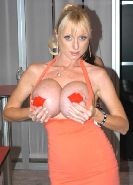 Sarah Louise (aka Morgan Leigh) at the 2007 Adult Entertainment Expo